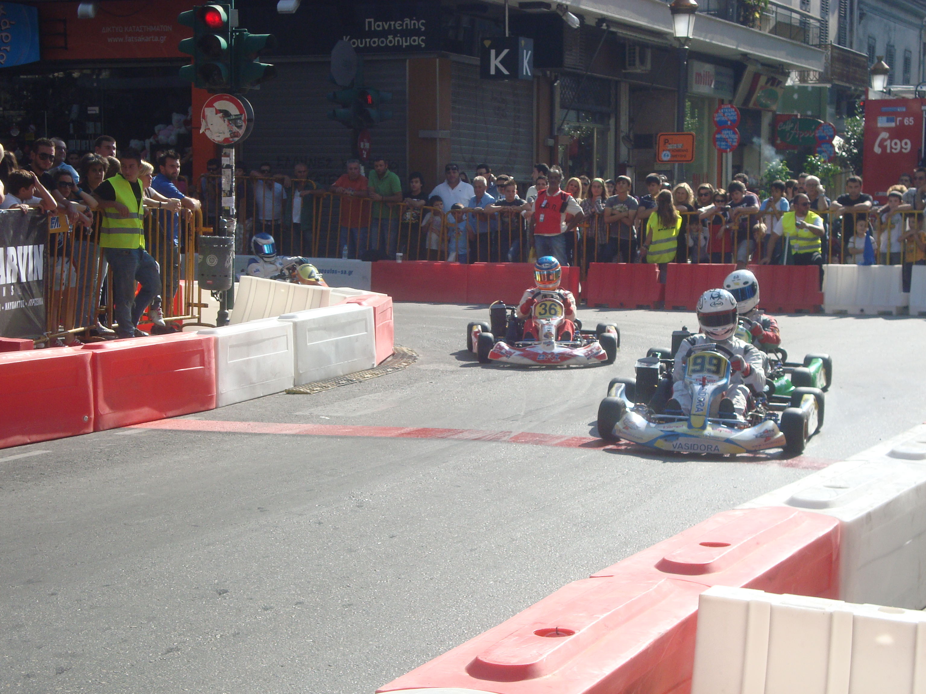 3rd Patras International Circuit for Kart 2011